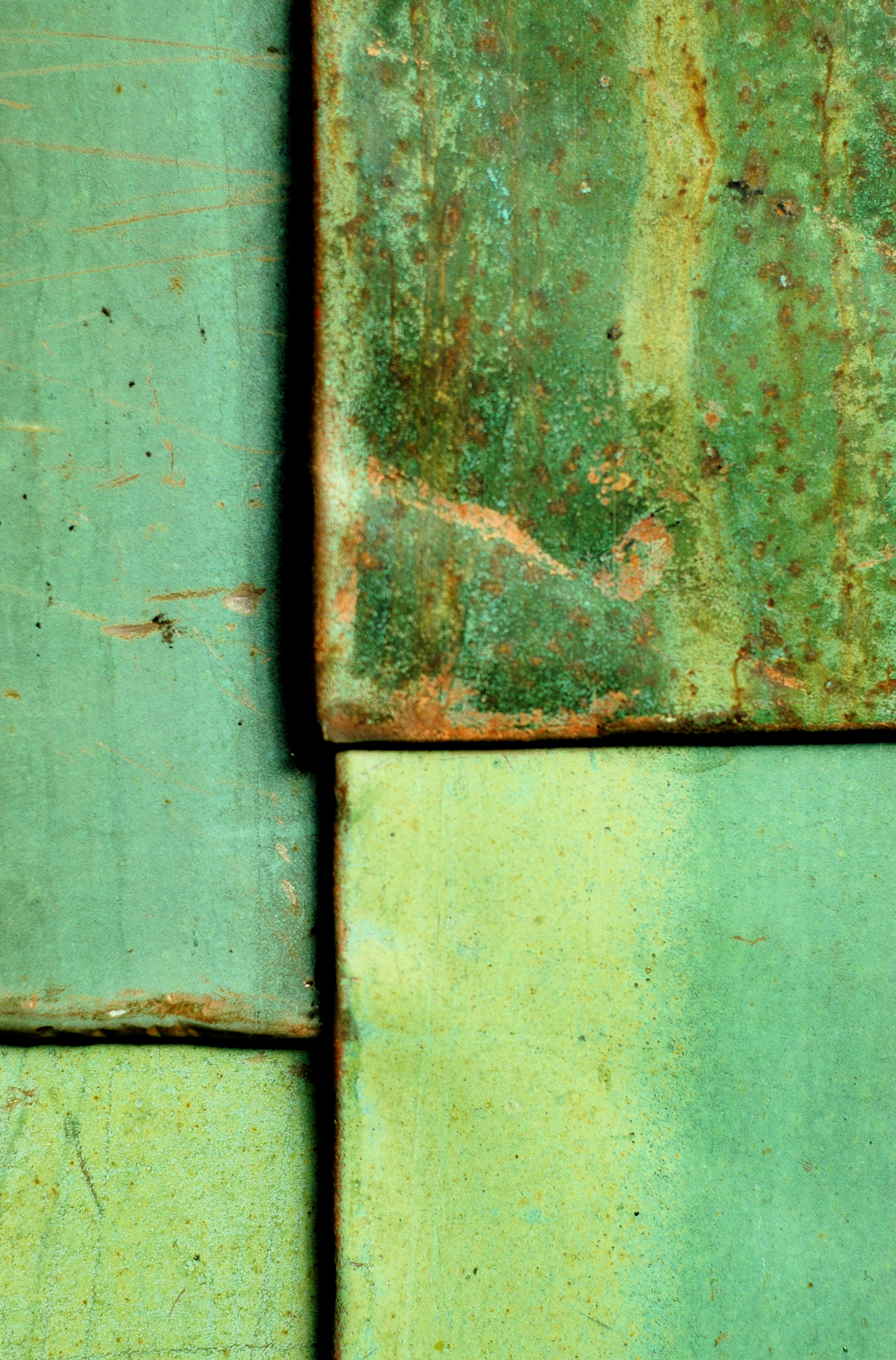 The former copper roofing from the Parliament Buildings has been reused as paneling in the Canadian War Museum.